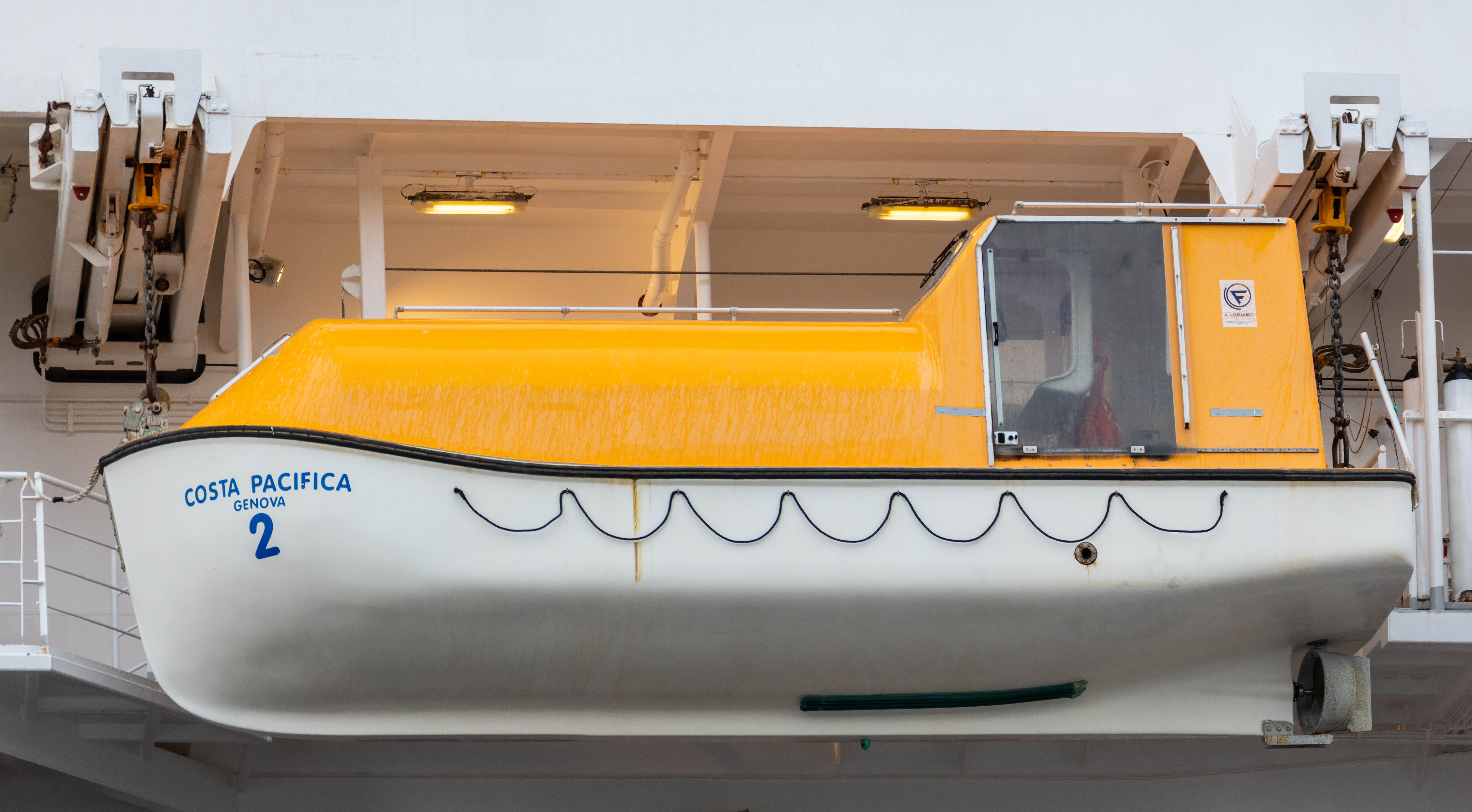 Lifeboat of Costa Pacifica vessel, Tromsø, Norway